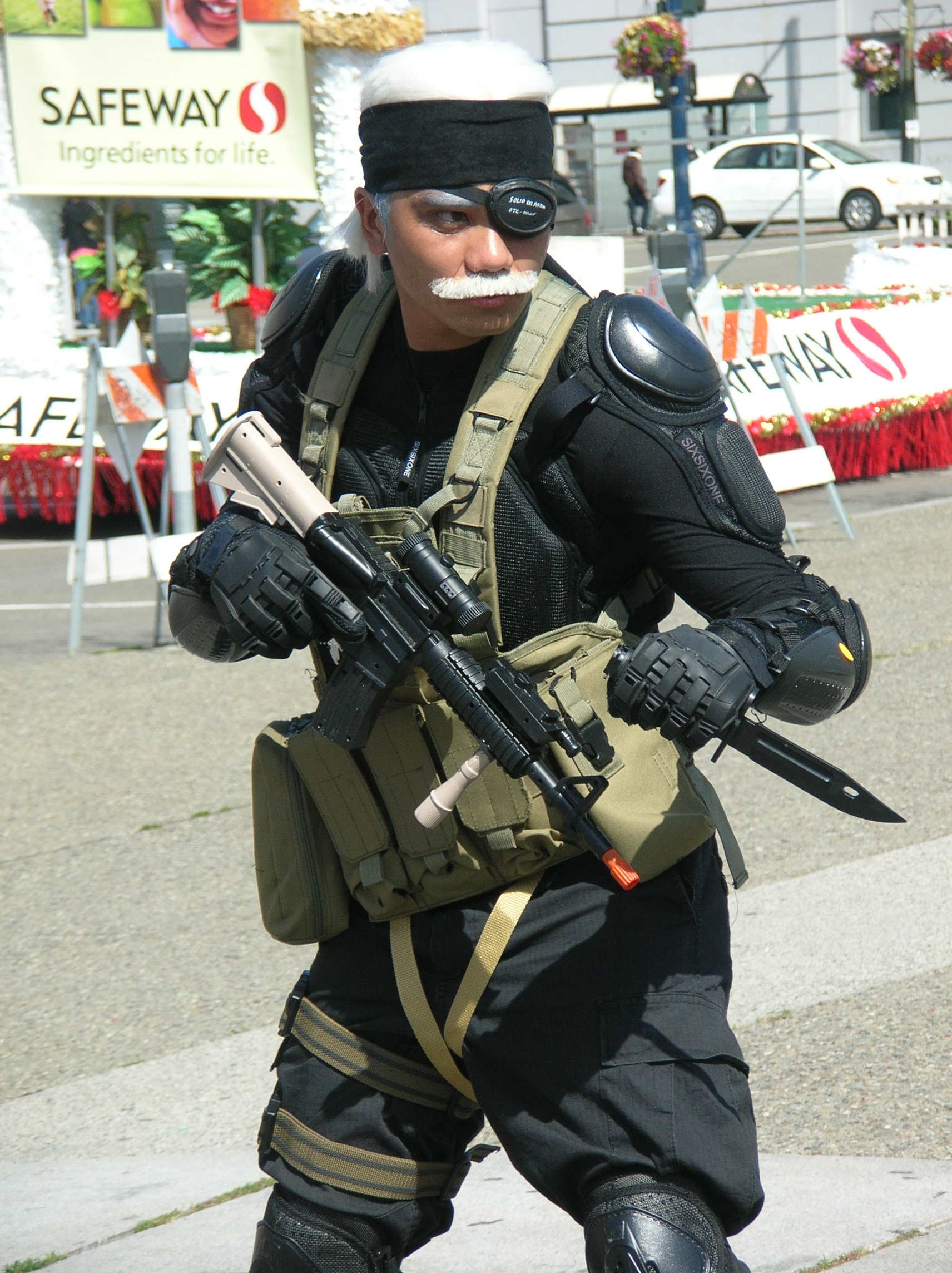 A cosplayer portraying Solid Snake from Metal Gear Solid 4: Guns of the Patriots competing in the costume contest at the Northern California Cherry Blossom Festival.